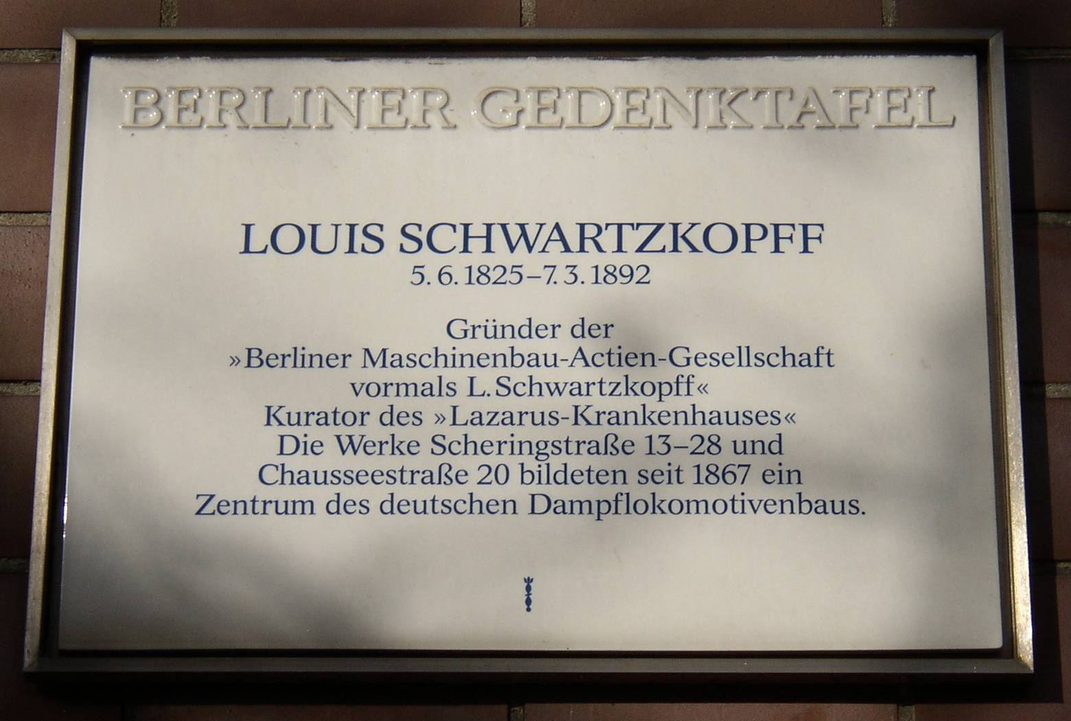 Berlin memorial plaque for Louis Schwartzkopff in Berlin-Gesundbrunnen, Germany